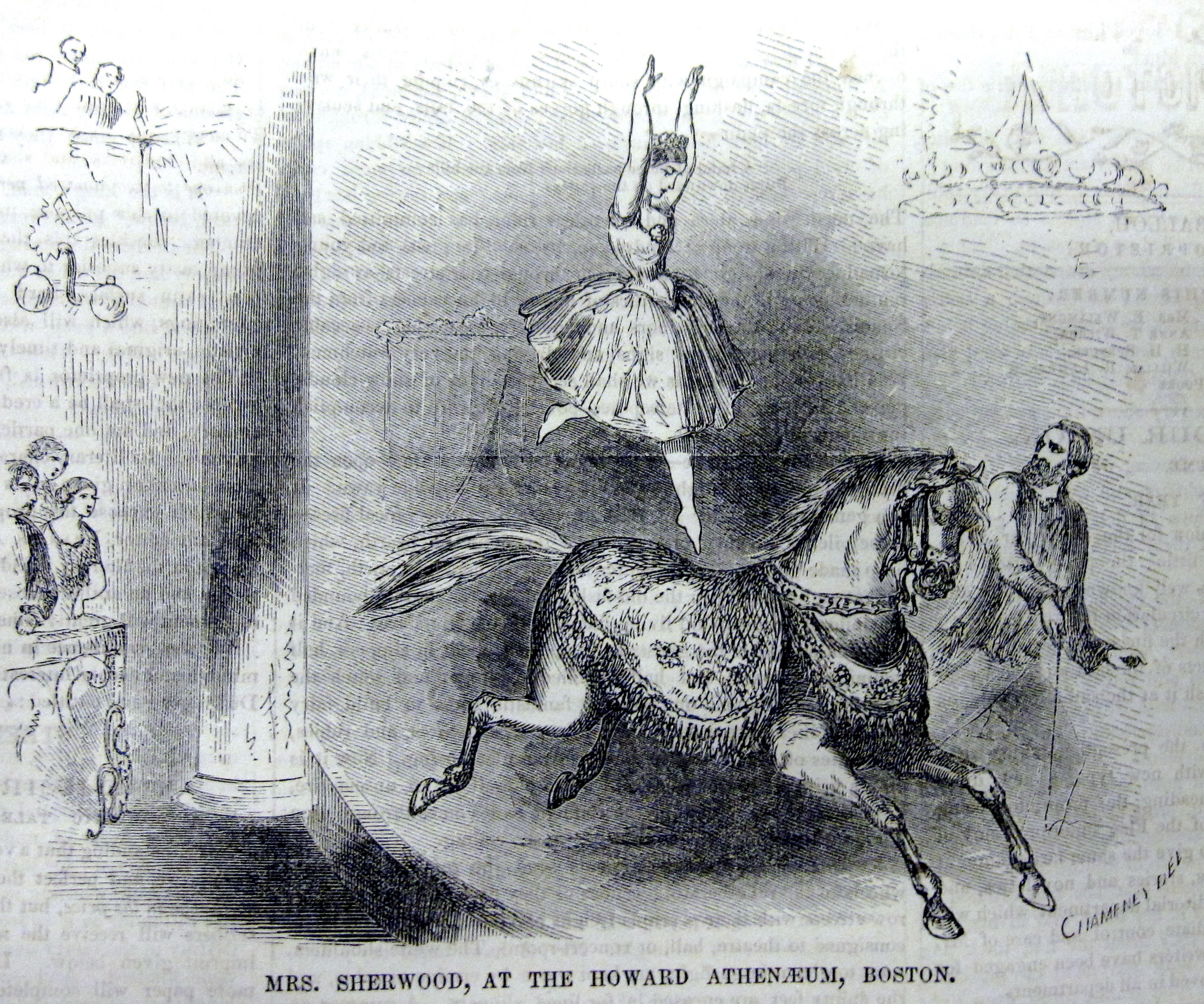 Howard Athenaeum, Gleason's Pictorial, 1854.